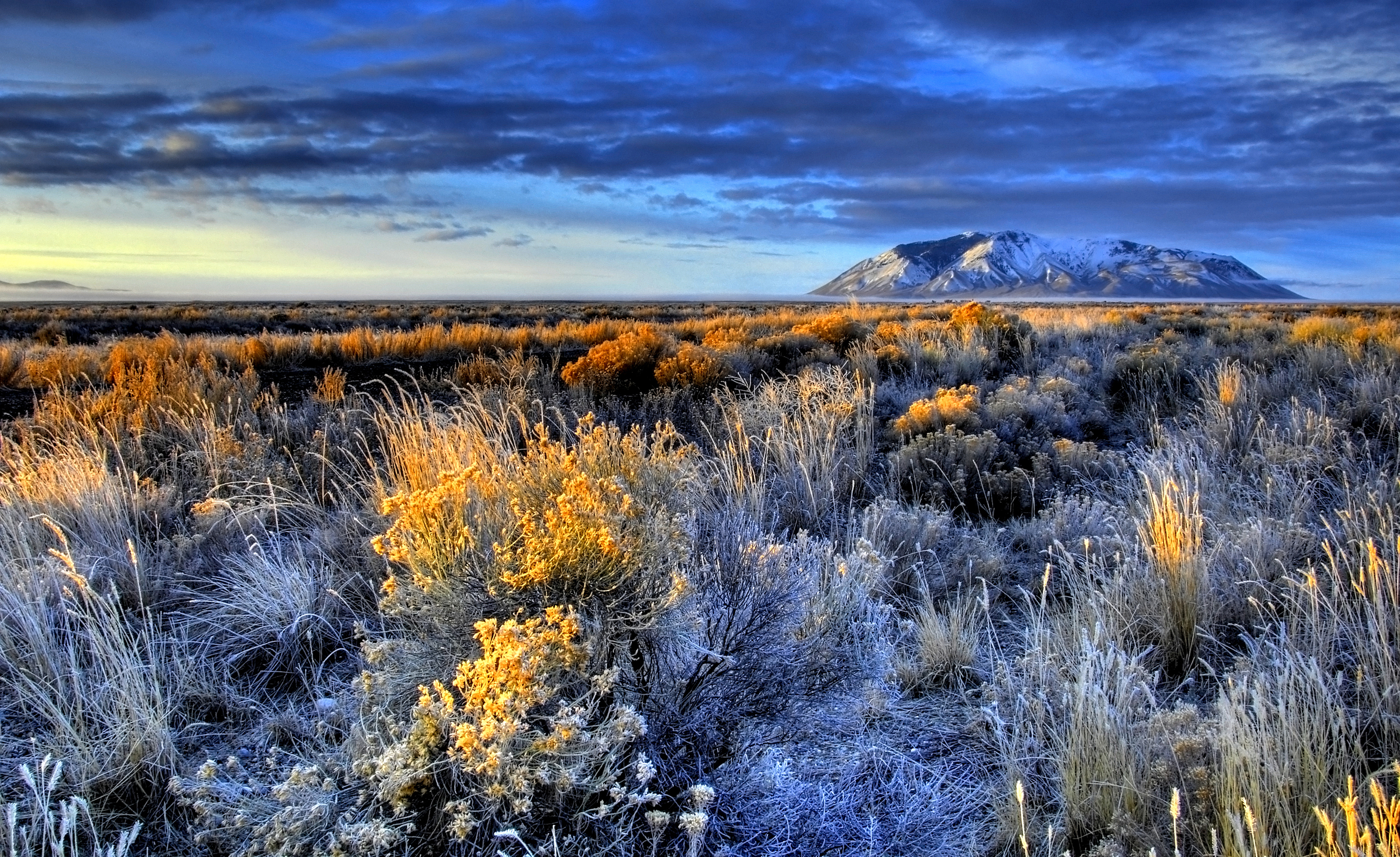 Big Southern Butte; by: James Neeley